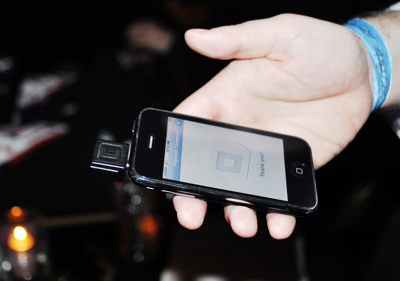 I was stoked to see a Square being used in the wild. Datapop at The High Ball, SXSW 2010, Austin, TX.